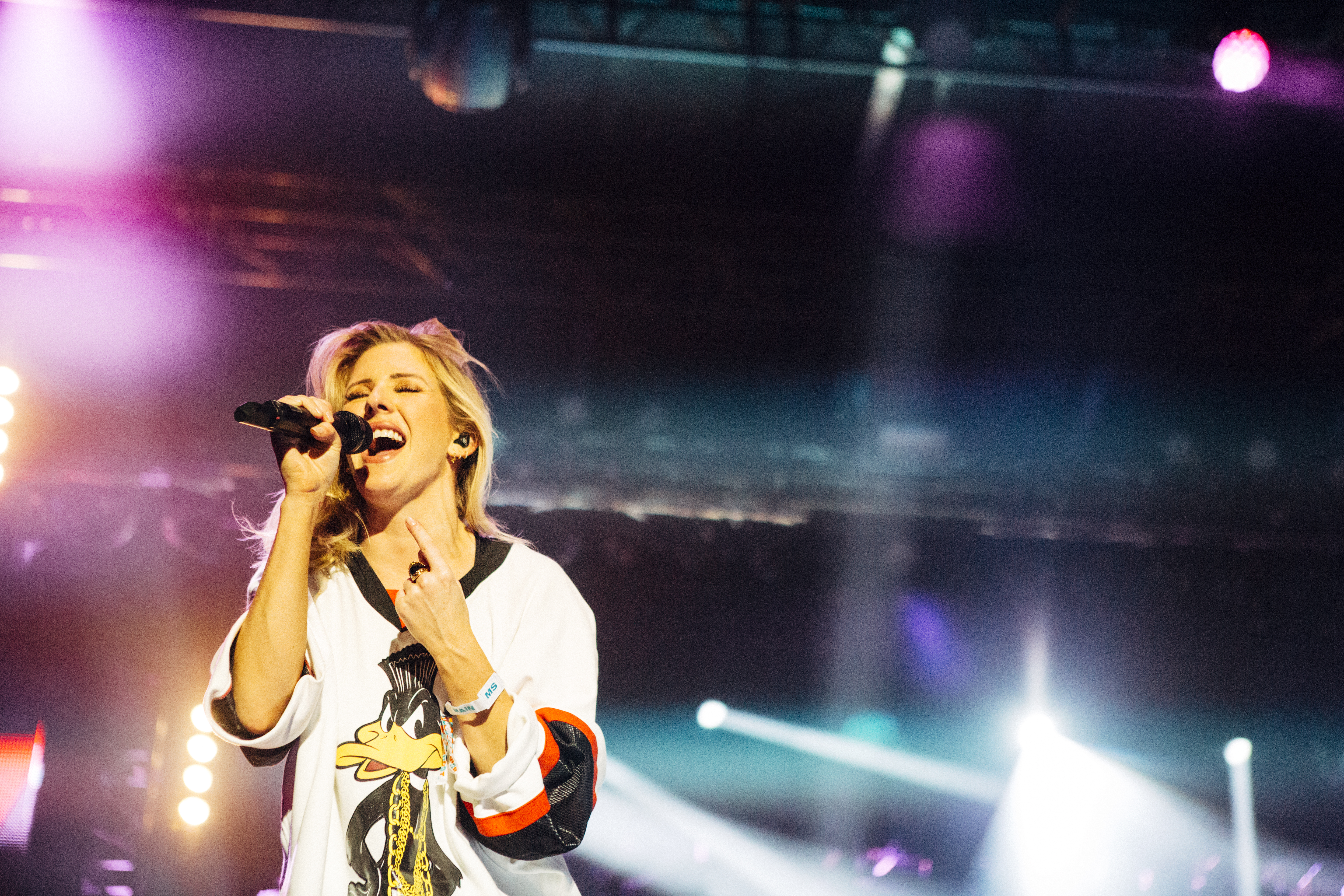 Ellie Goulding in Bumbershoot Festival 2015, Seattle